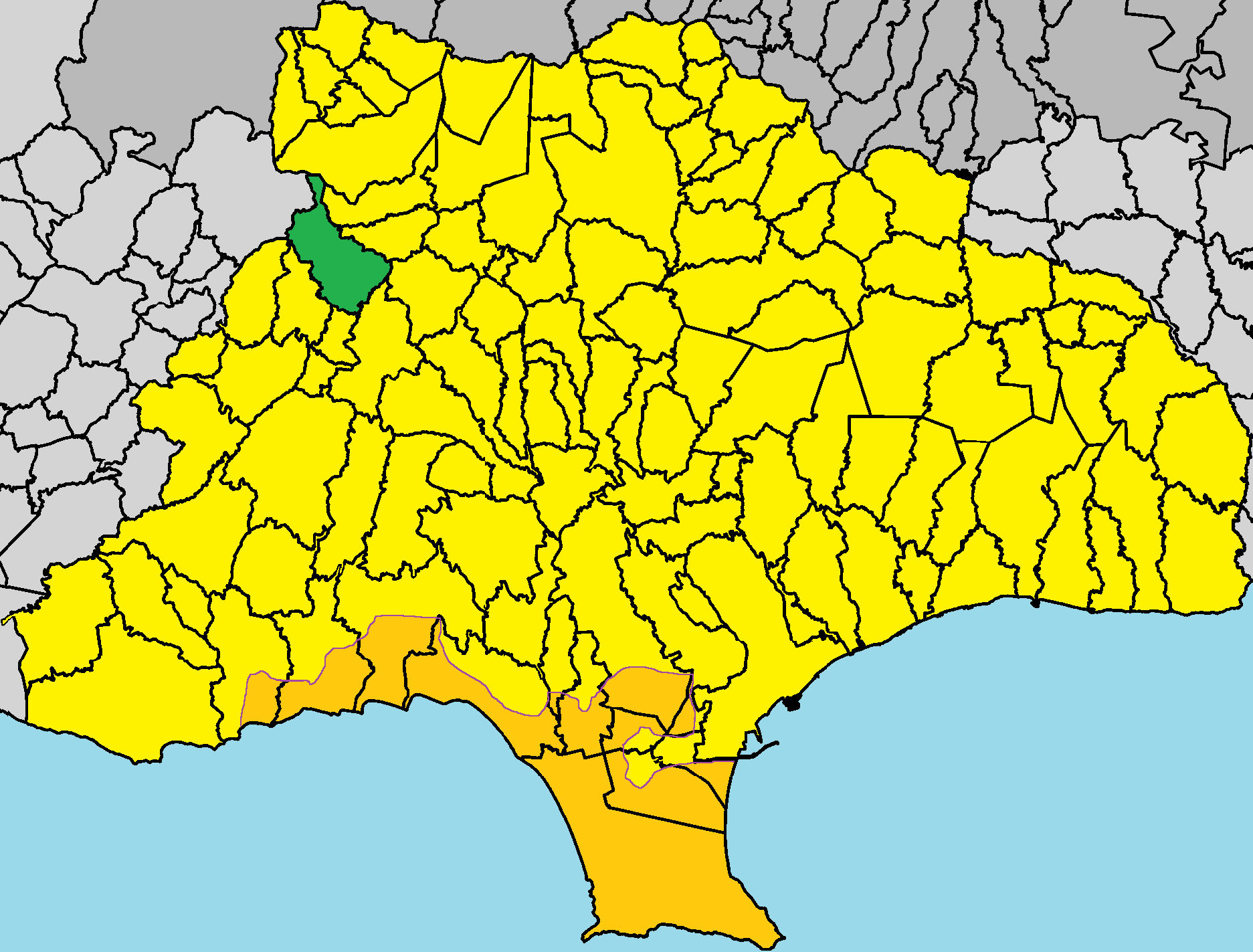 Omodos in Limassol District.